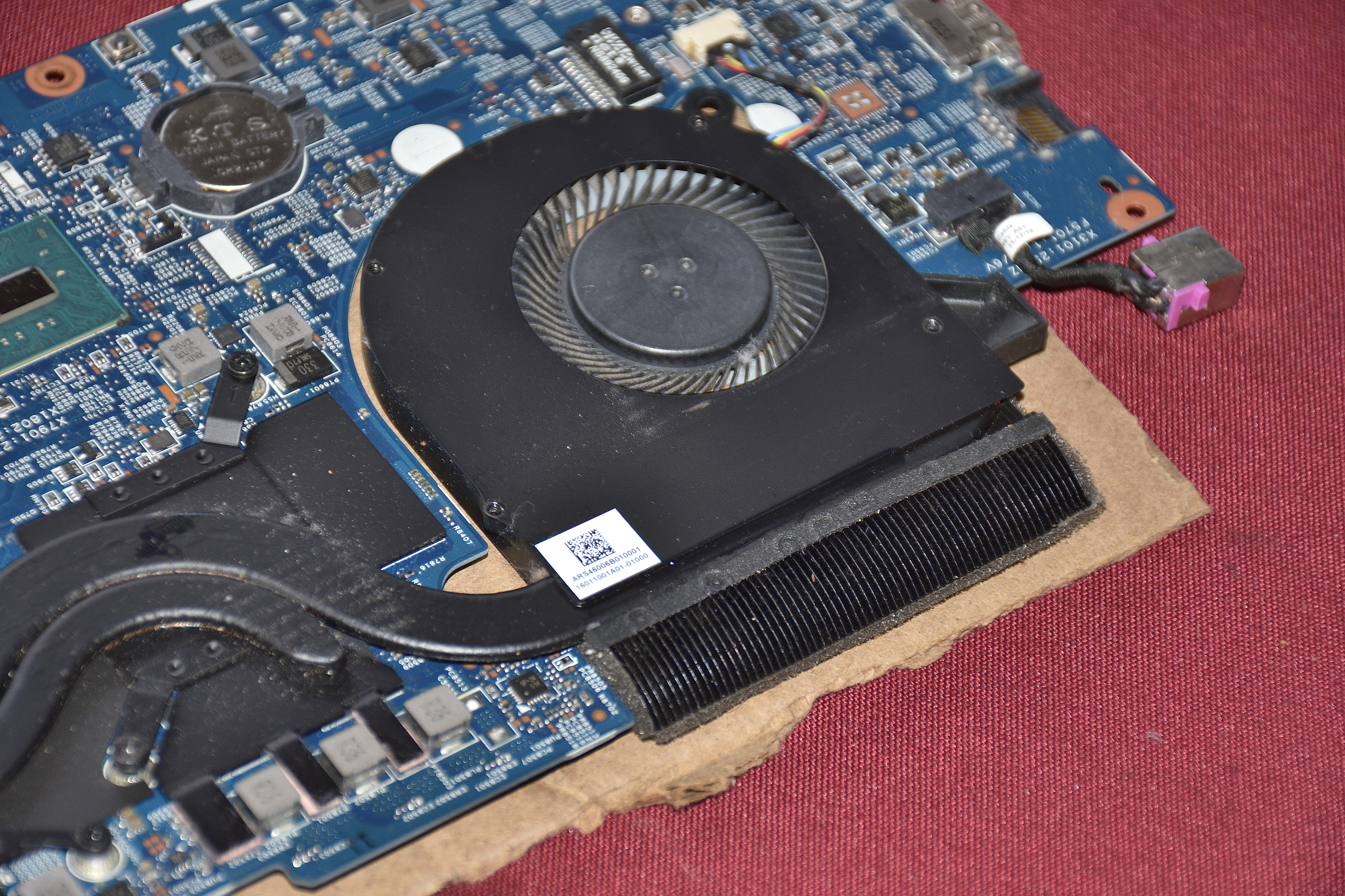 Typical heatsink-fan combination found on a consumer laptop. The heatpipes make direct contact with the CPU, and GPU, conducting heat away from the component and dissipating it within the fin-stack mounted to the exhaust port of the cooling fan.